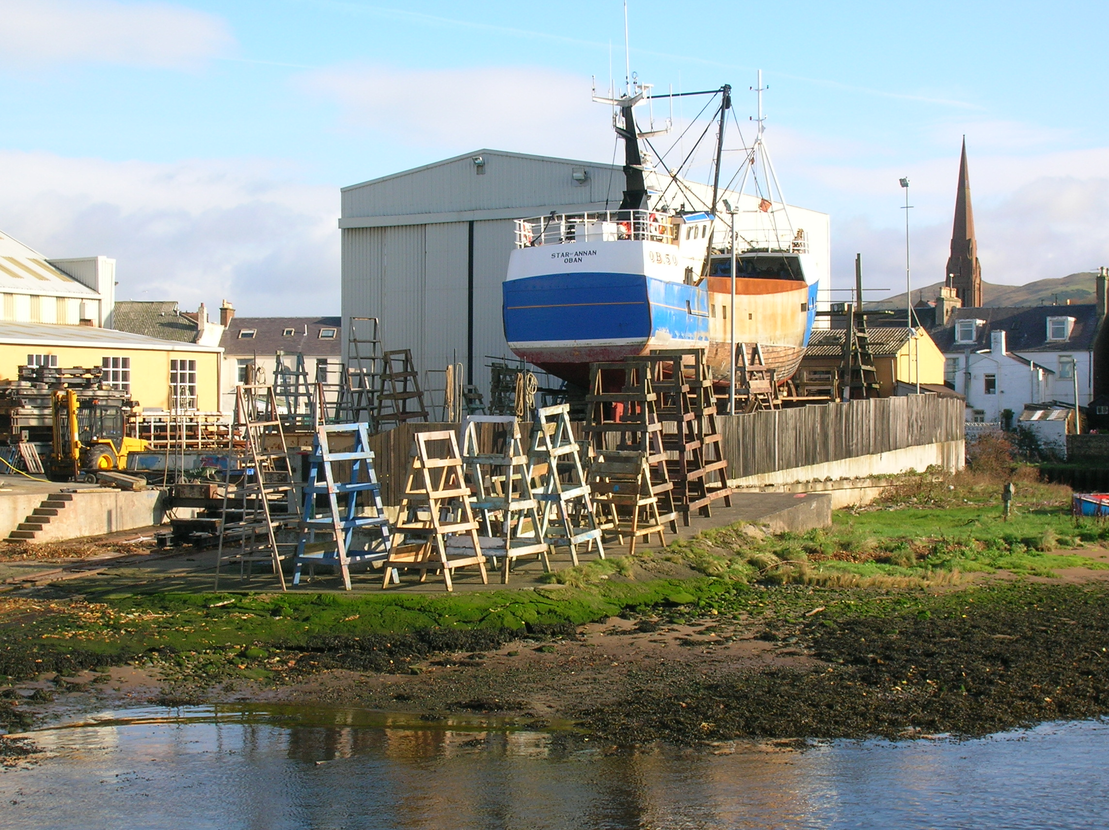 The Star of Annan OB 50 at Girvan Harbour and shipyard, South Ayrshire, Scotland